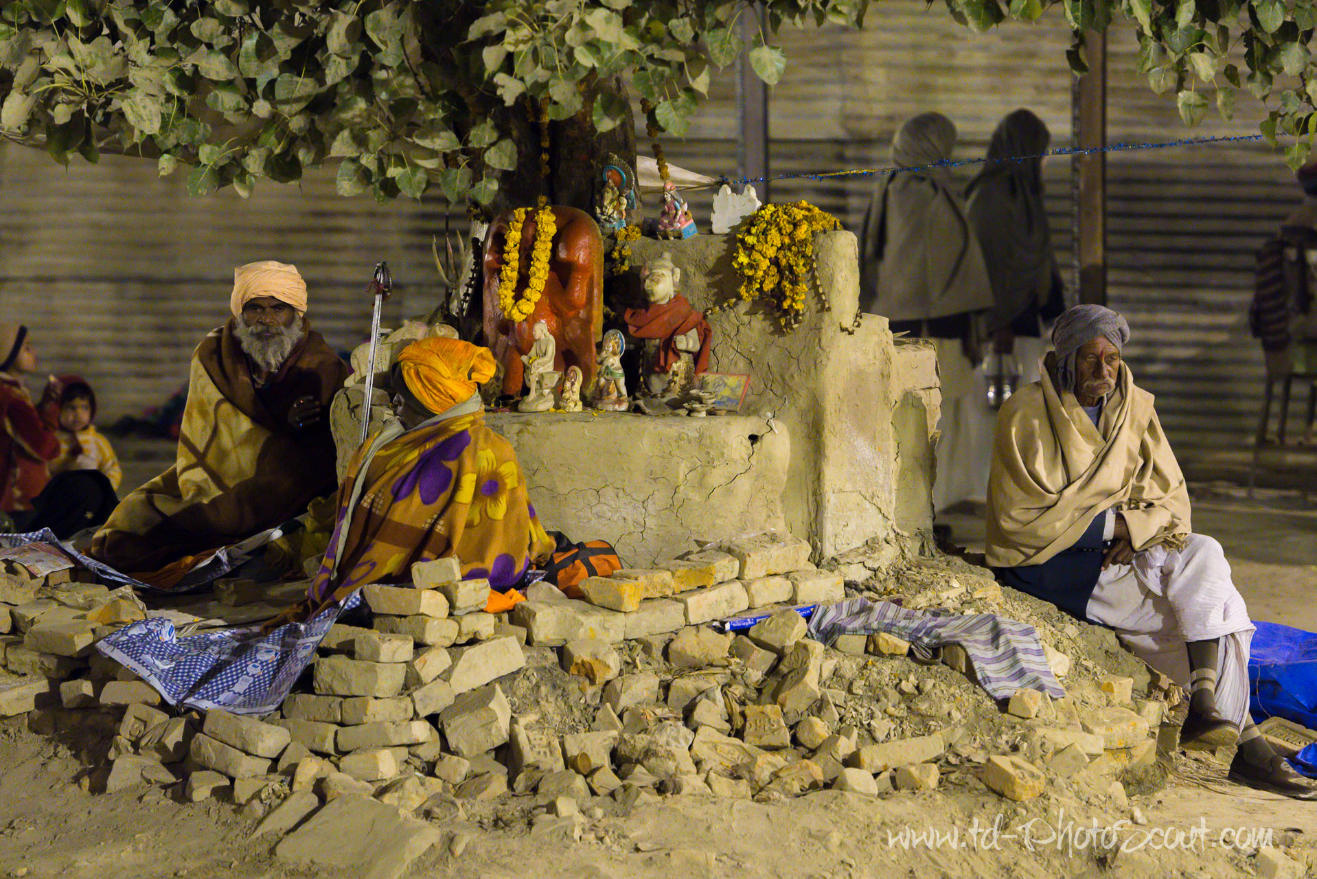 Worship of a sacred tree during Paush Purnima, Kumbh Mela 2013, Allahabad (iIndia)